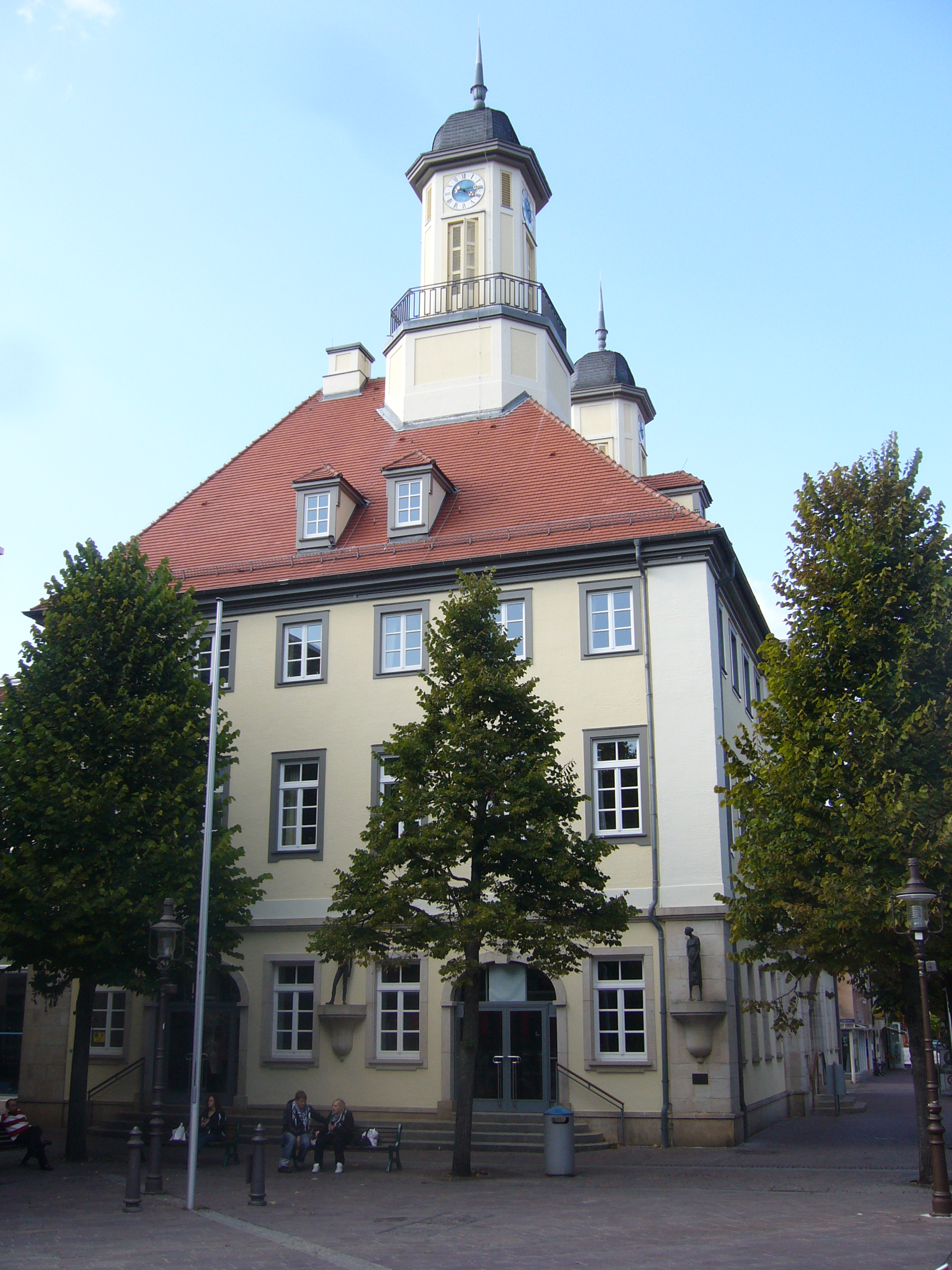 Town Hall of Tuttlingen, Germany